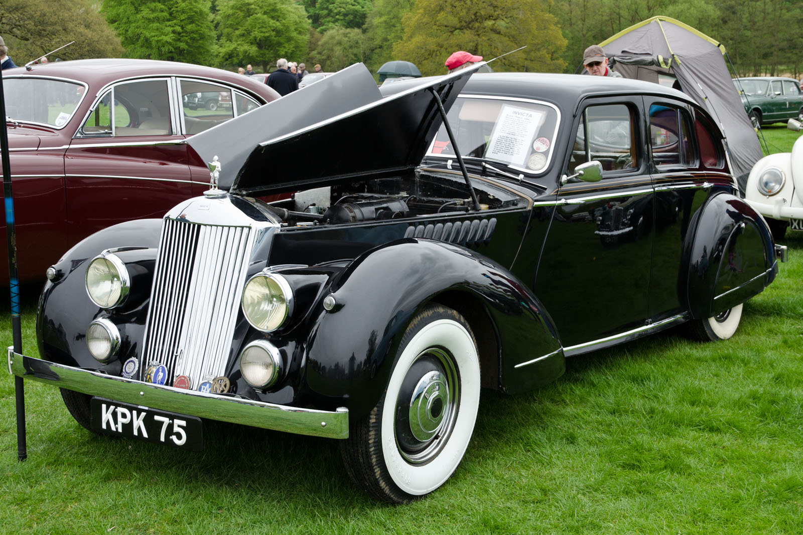 Invicta Black Prince 1946 (DVLA) first registered 17 October 1946, 2998cc Vale Royal Classic Car Show at Arley Hall 12/05/2013